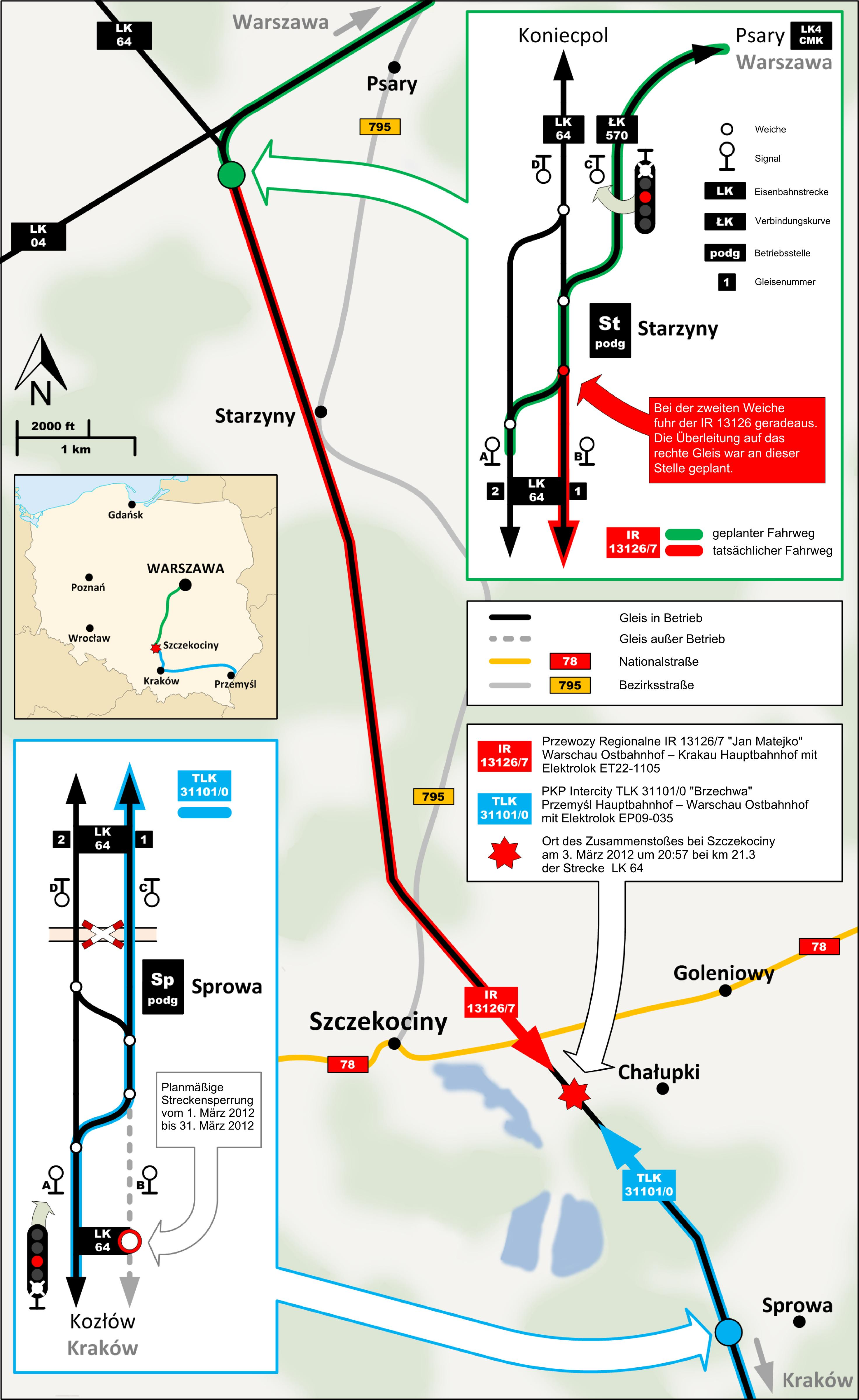 Szczekociny rail crash